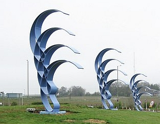 Hemel Hempstead: Phoenix Gateway sculpture The sculpture has been designed to reflect the recovery of Hemel Hempstead, and the Maylands business estate in particular, from the Buncefield oil depot explosion in 2005. It was designed by Jose Zavala.